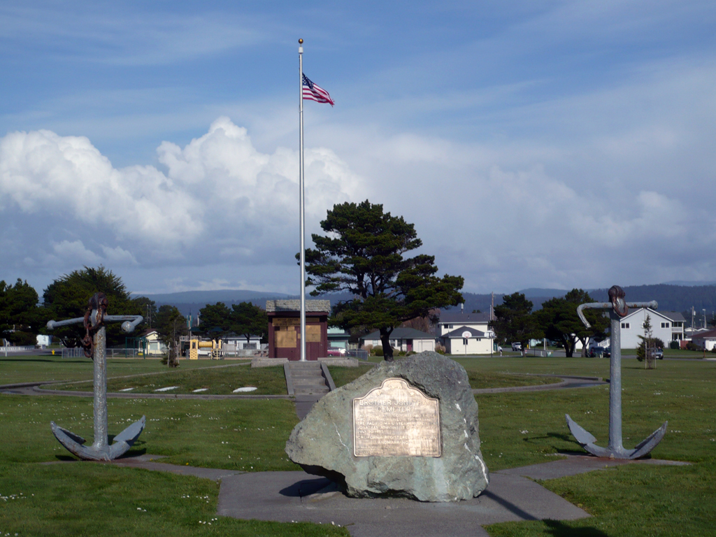 The Brother Jonathan Cemetery: California Registered Historical Landmark #541 in situ. Graves of victims and others are around the flagpole. Historical Plaque reads: "Brother Jonathan Cemetery - This memorial is dedicated to those who lost their lives in the wreck of the Pacific Mail steamer Brother Jonathan at point St. George's Reef, July 30, 1865. California Registered Historical Landmark No. 541. Plaque placed by the California State Park Commission in cooperation with the Del Norte Historical Society, October 20, 1960."